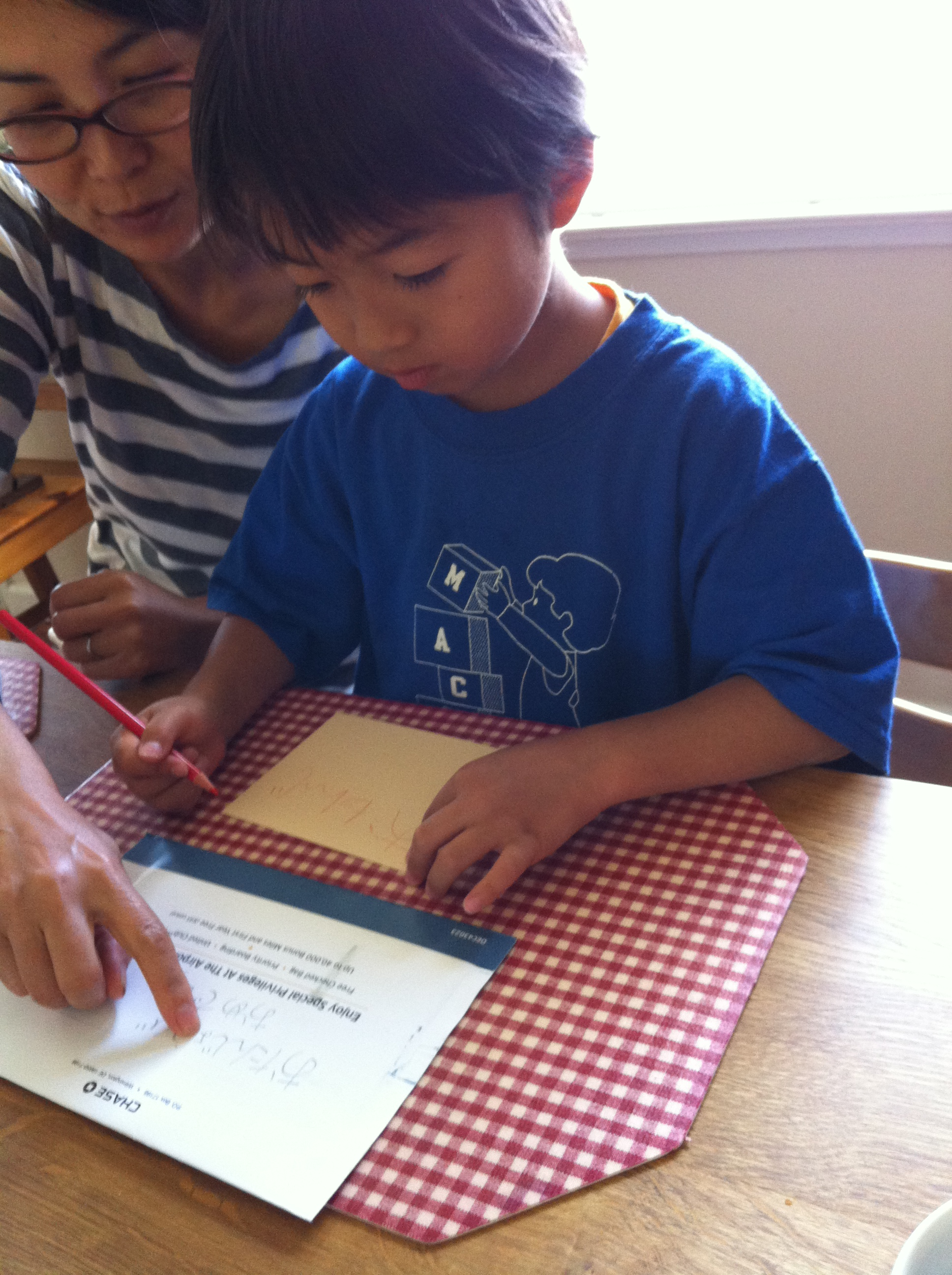 Japanese mom and son at home